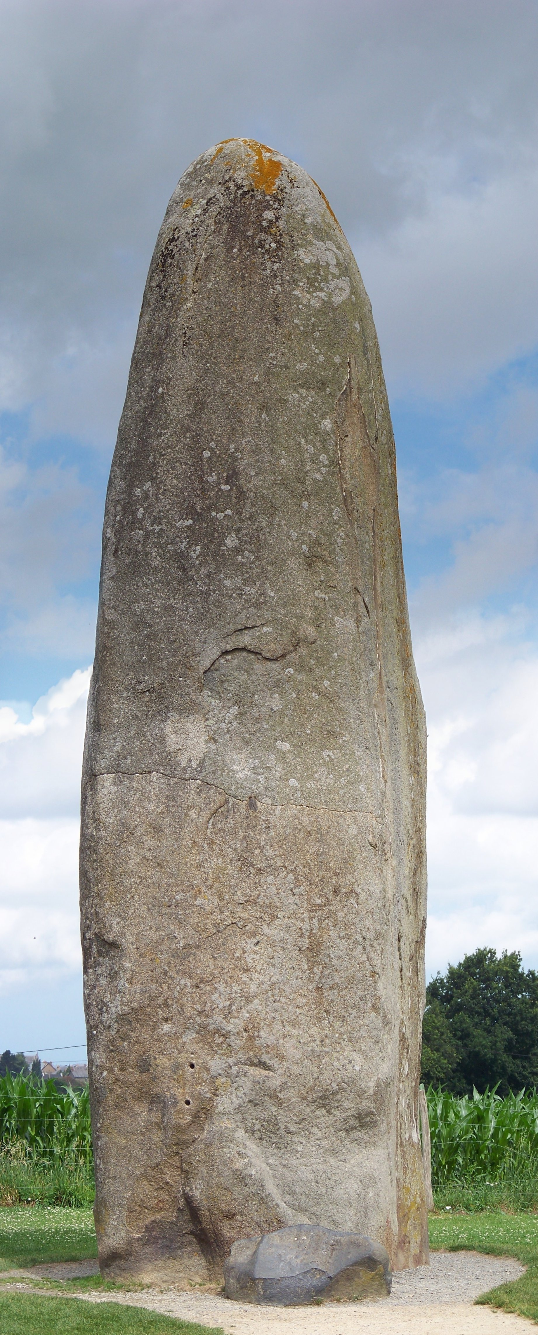 Champ Dolent Menhir, Dol, Ille-et-Vilaine, Bretagne. This is one of the highest menhirs in Europe (10 meters)